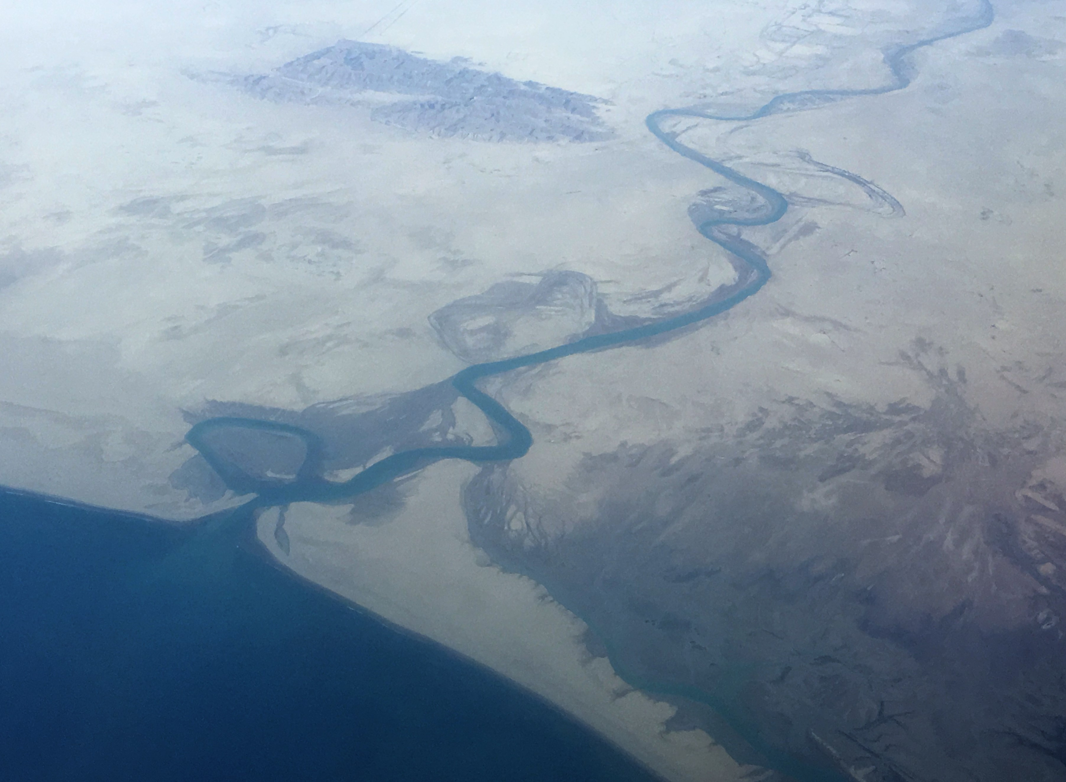 In Western Pakistan, the Dasht river runs into the Jiwali Bay near the border with Iran.